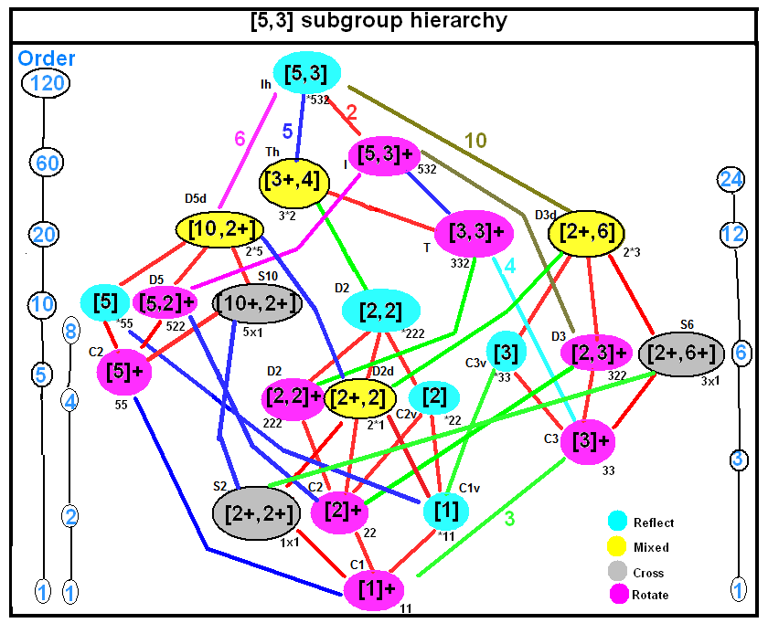 3D point symmetry subgroup hierarchy